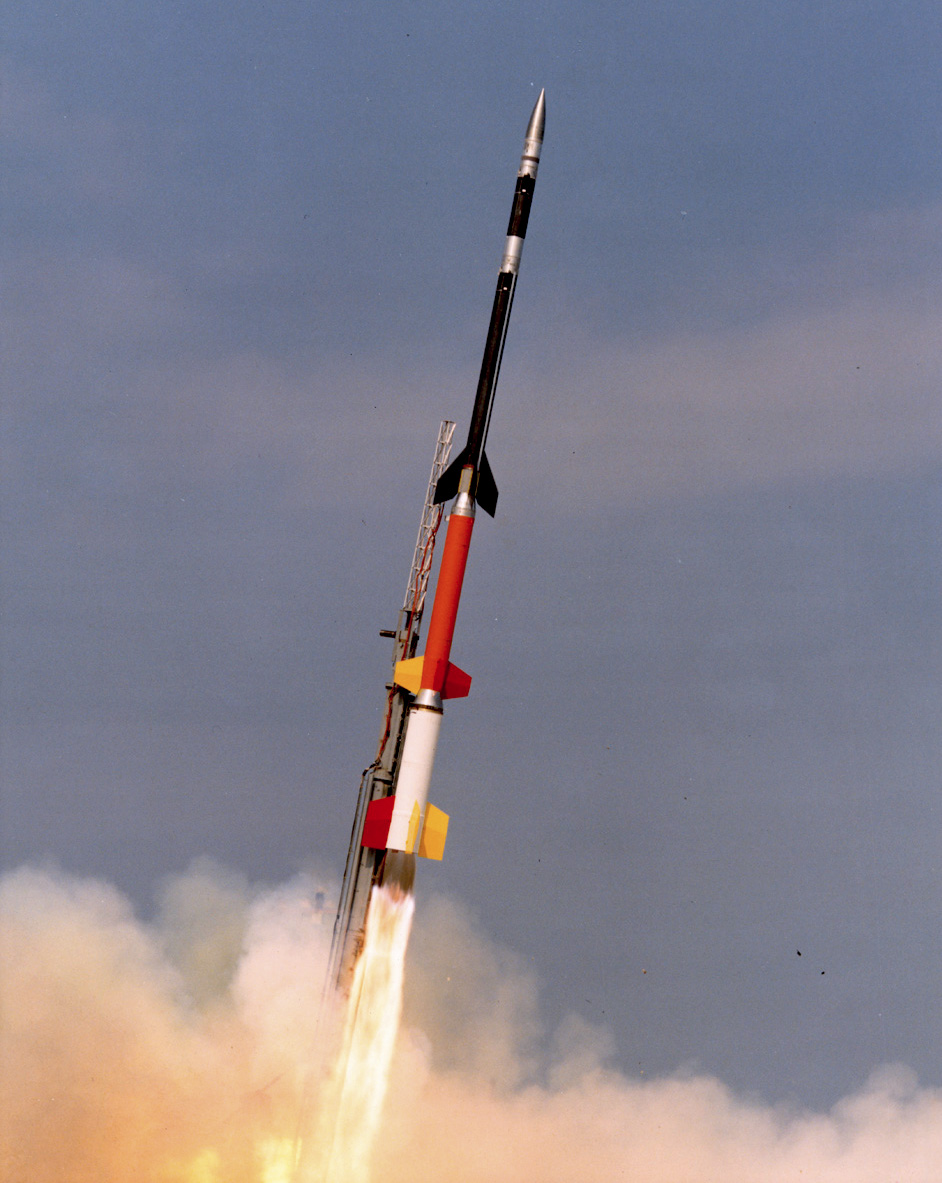 Black Brant 12 sounding rocket, launching from Wallops Flight Facility. See this site for more information about the Black Brant 12.